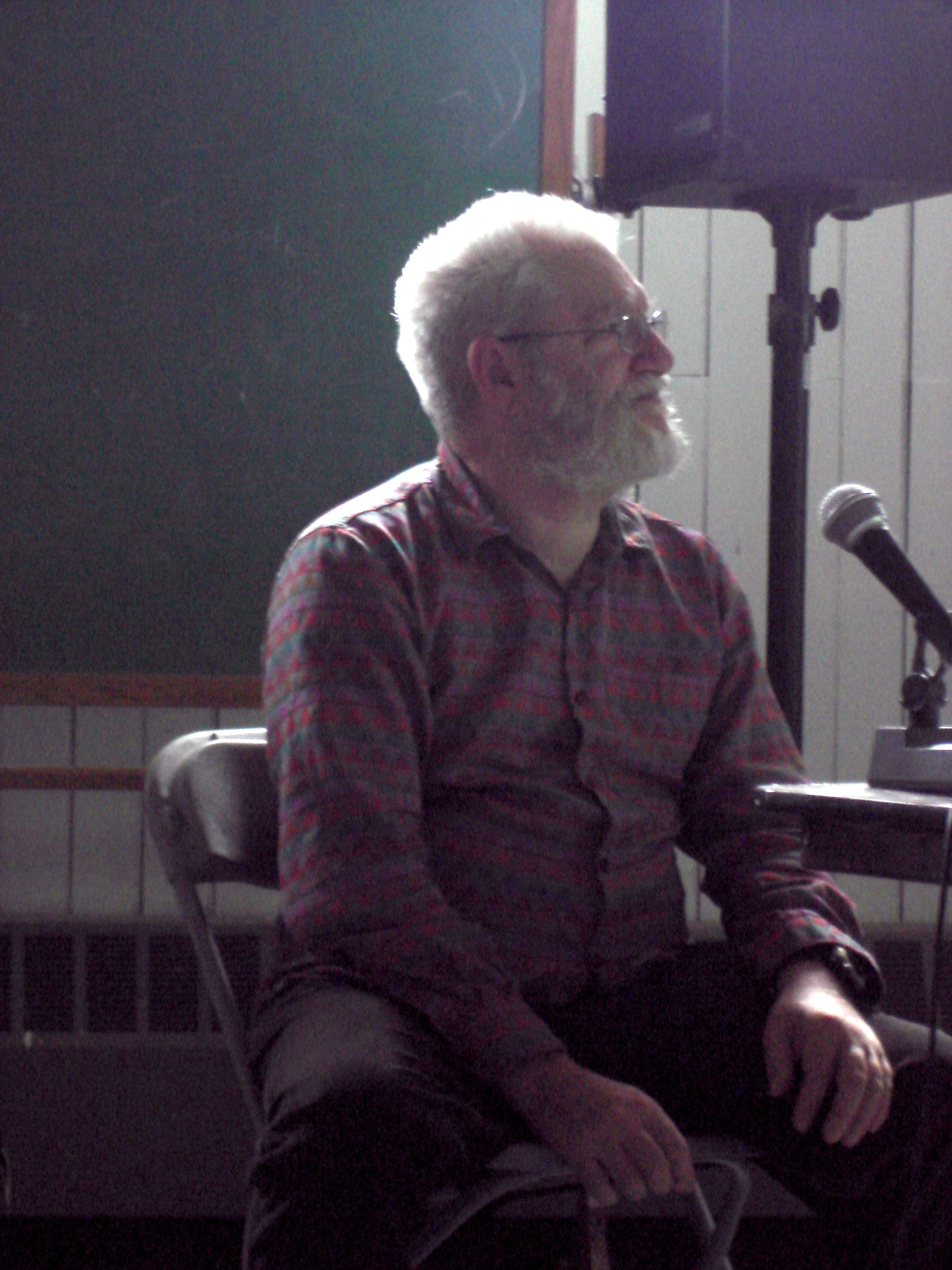 Dan Graham speaking at the Maine College of Art, Portland, Maine, in an appearance sponsored by the Portland Film + Video Artists Collective, Portland Color, Maine Humanities Council, Maine Arts Commission, and Maine College of Art.